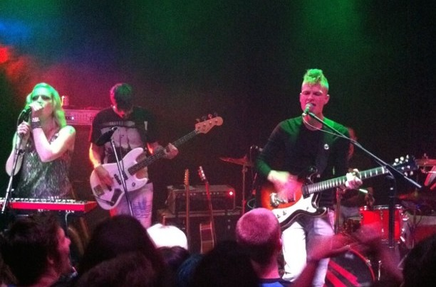 Mother Mother Performing at Rickshaw Stop San Francisco, CA